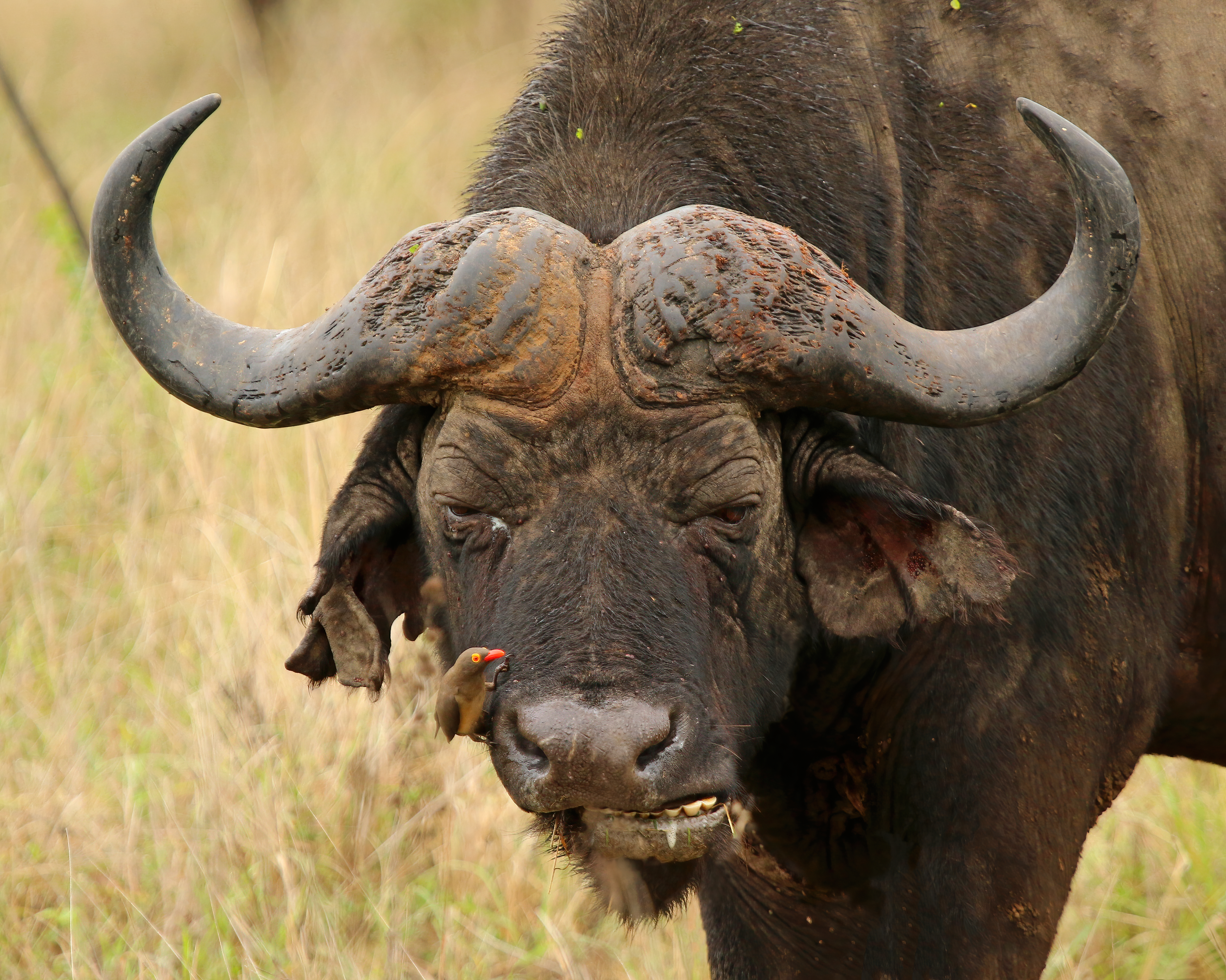 African buffalo (Syncerus caffer) male with red-billed oxpecker (Buphagus erythrorhynchus), Phinda Private Game Reserve, KwaZulu Natal, South Africa